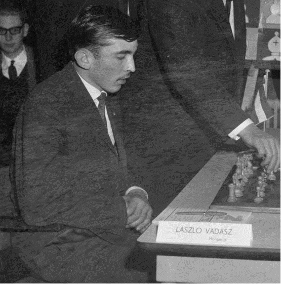 László Vadász Hungarian Chess Grandmaster